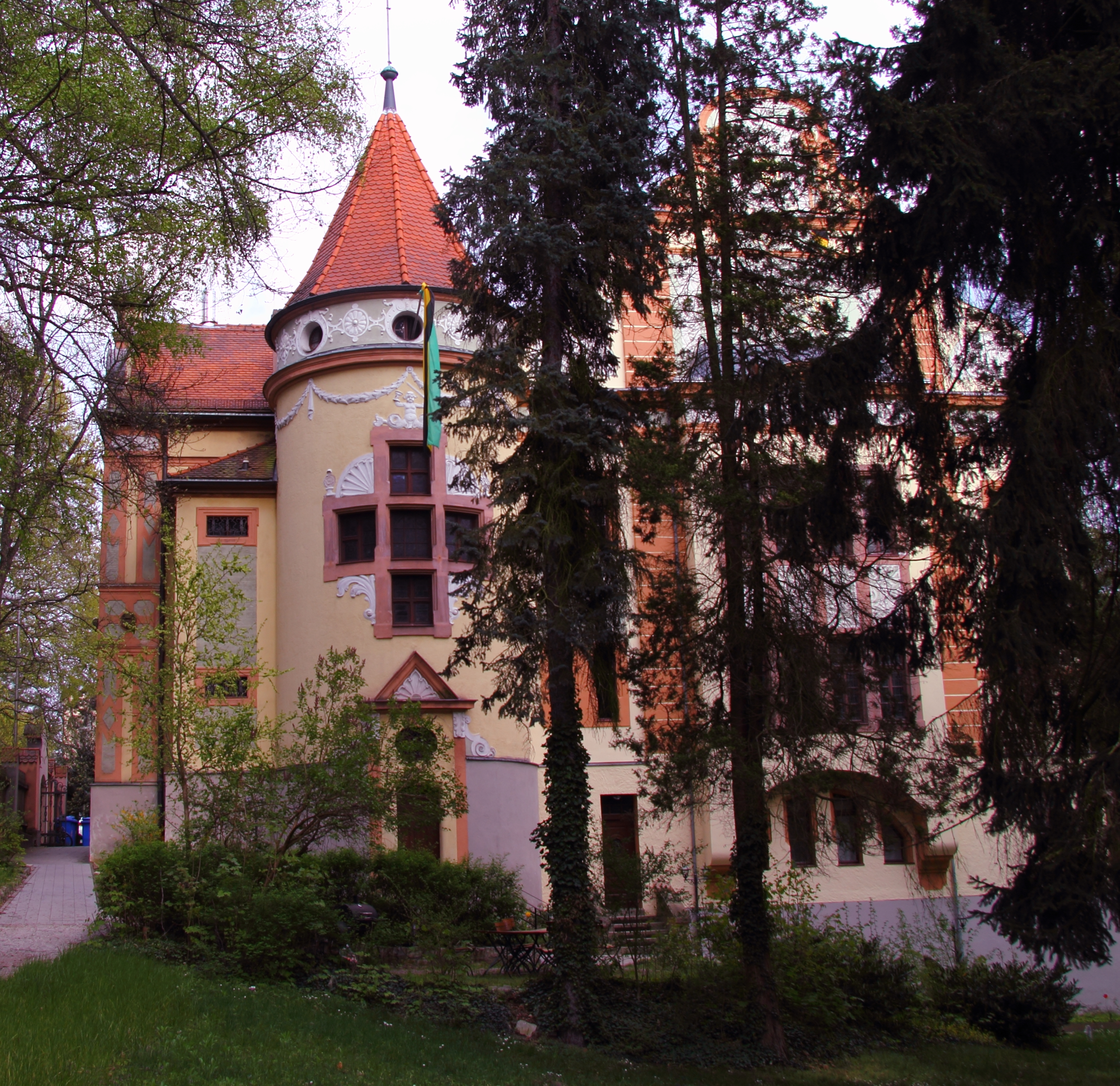 House of student fraternity Corps Baruthia Erlangen, Rathsberger Strasse 20, Erlangen, Germany